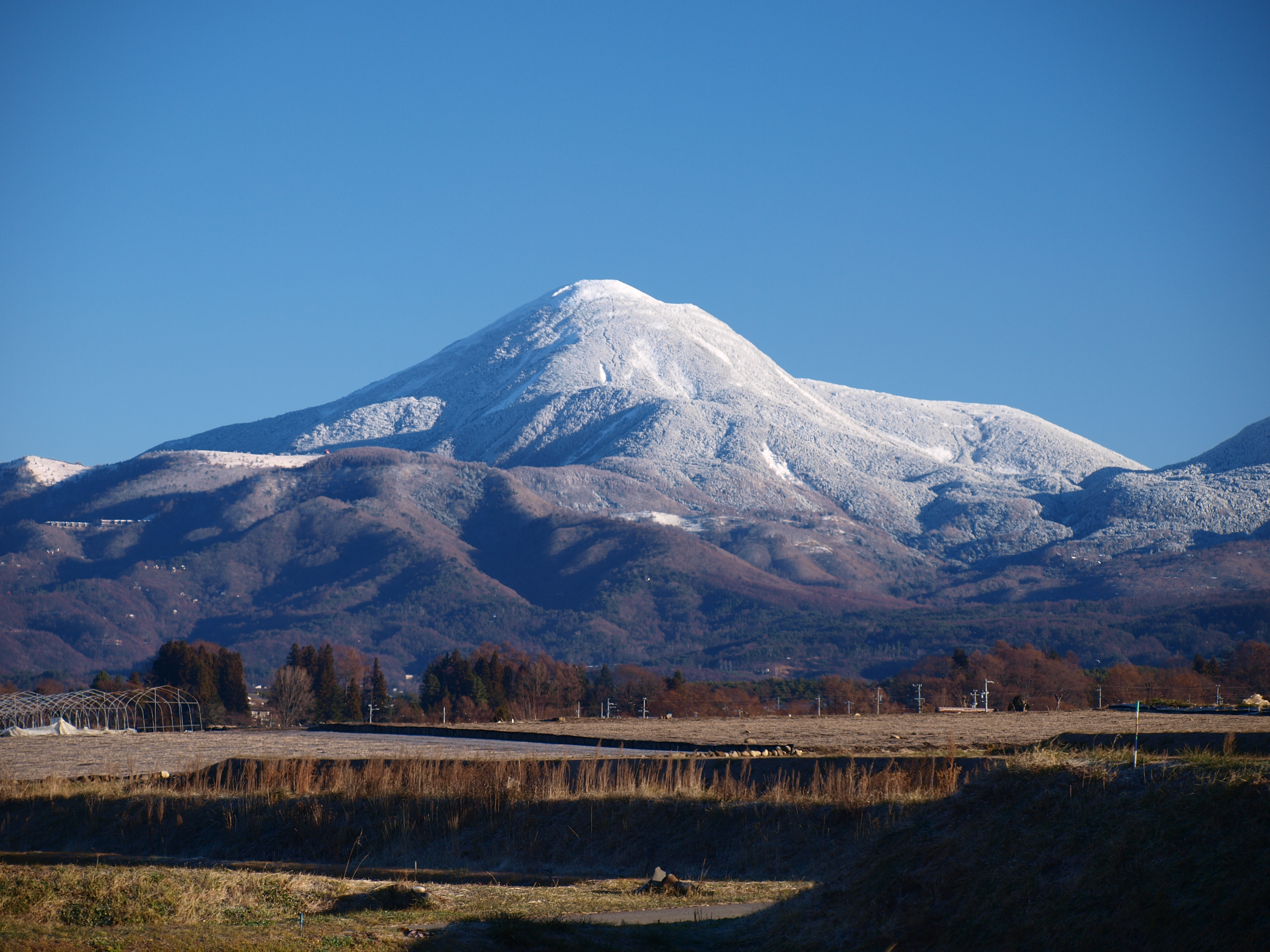 Mount Tateshina (Tateshinayama) seen from the SSW.